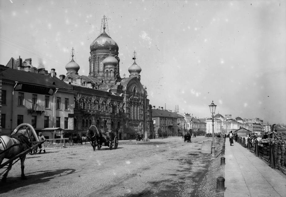 Accession Number: 1975:0112:1868 Maker: Ch. Chusseau-Flaviens Title: Russie les quais de la Neva a St Petersbourg Date: ca. 1900-1919 Medium: negative, gelatin on glass Dimensions: 9 x 12 cm. George Eastman House Collection General information about the George Eastman House Photography Collection is available at [1]. For information on obtaining reproductions see: [2].